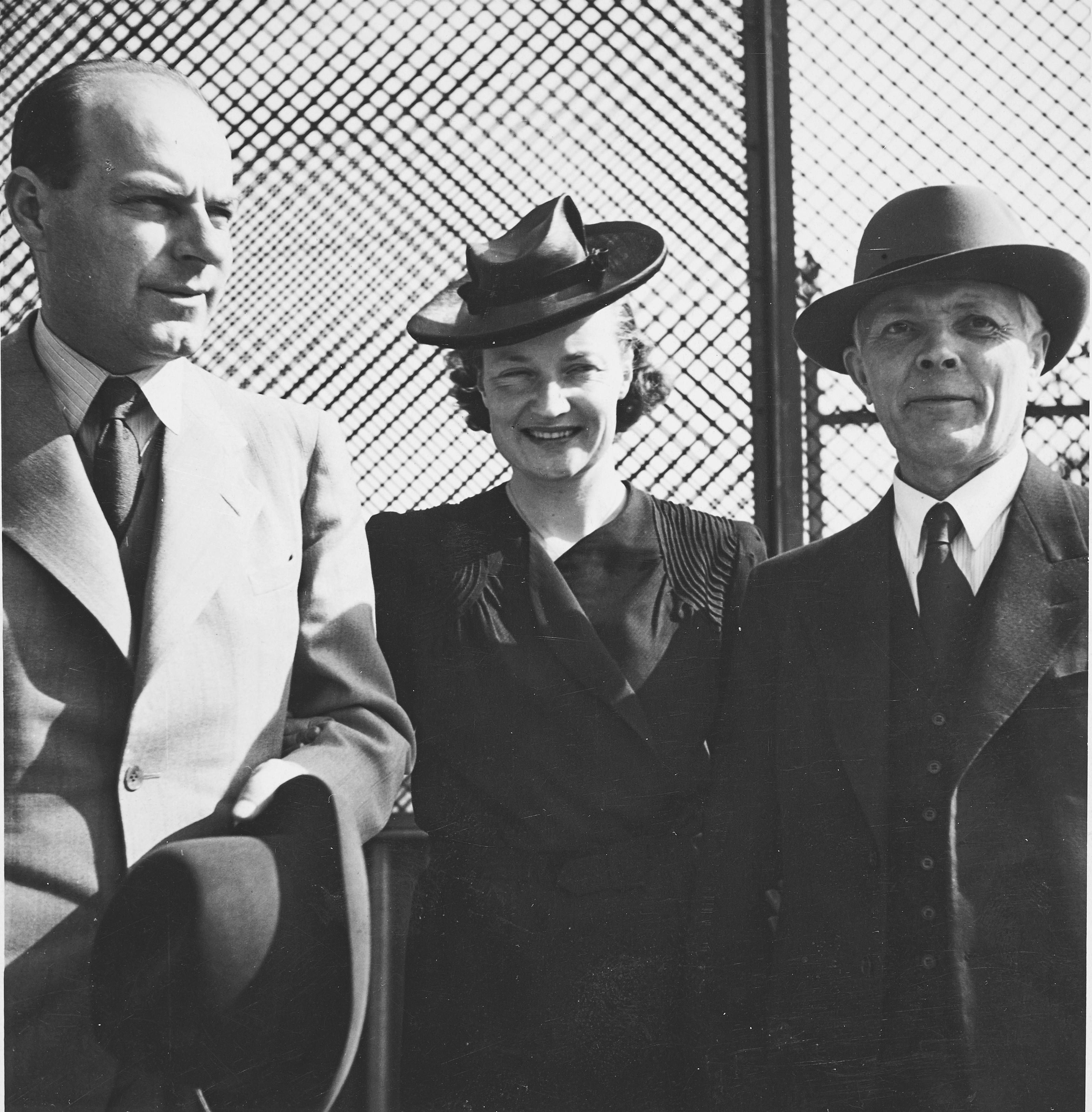 Photograph of the Finnish scholar Lauri Aadolf Puntila (1907–1988) and architect Jussi Paatela (1886–1962), with an unidentified woman.